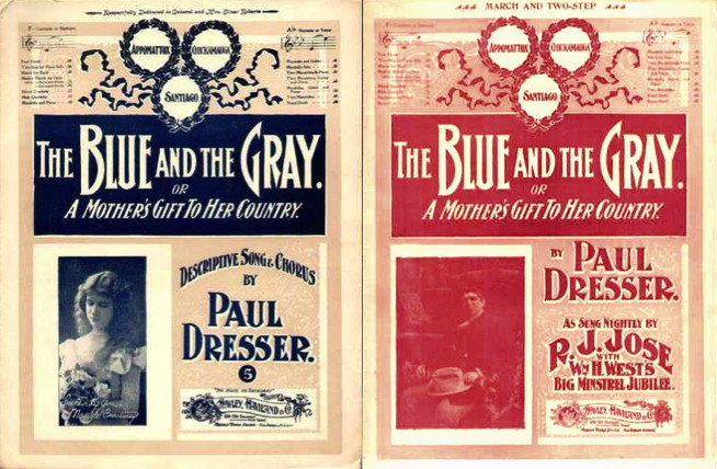 Original sheet music front cover, 1900; Howley, Haviland & Co. These are the Richard Jose promotional cover (right, red) and a cover promoting a female singer whose name (something Maude something) is mostly illegible (left, blue).